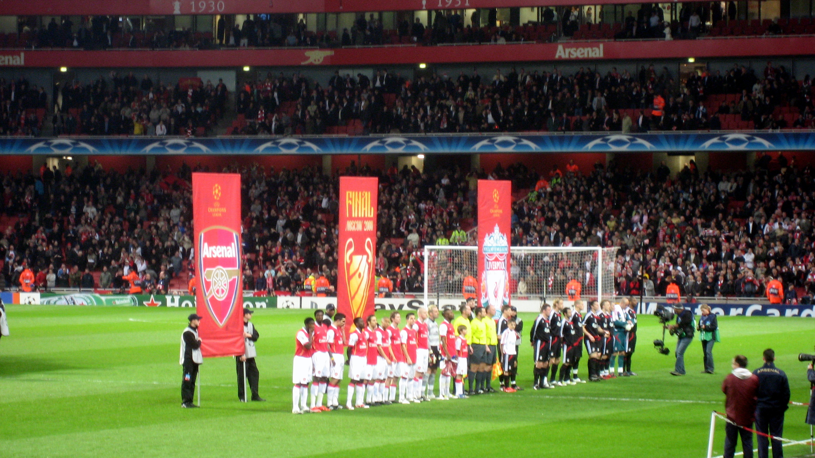 2007-08 Champions League match between Arsenal FC and Liverpool FC in London. Result was 1-1.